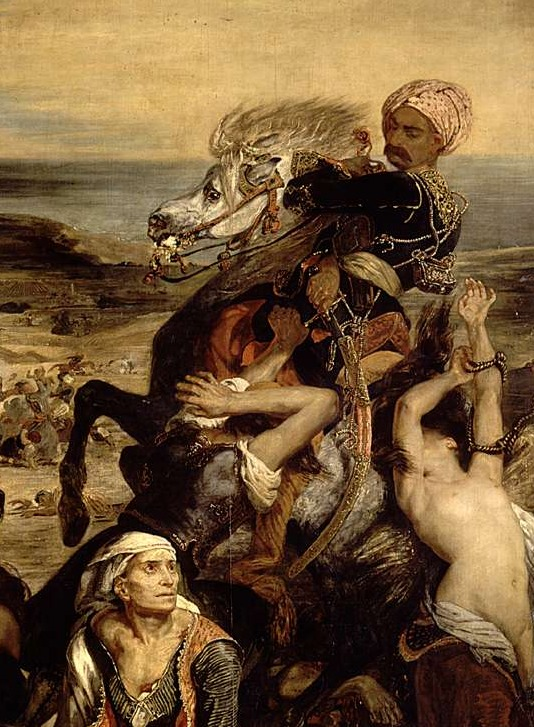 Le Massacre de Scio, held at the Louvre, Paris This is a retouched picture, which means that it has been digitally altered from its original version.